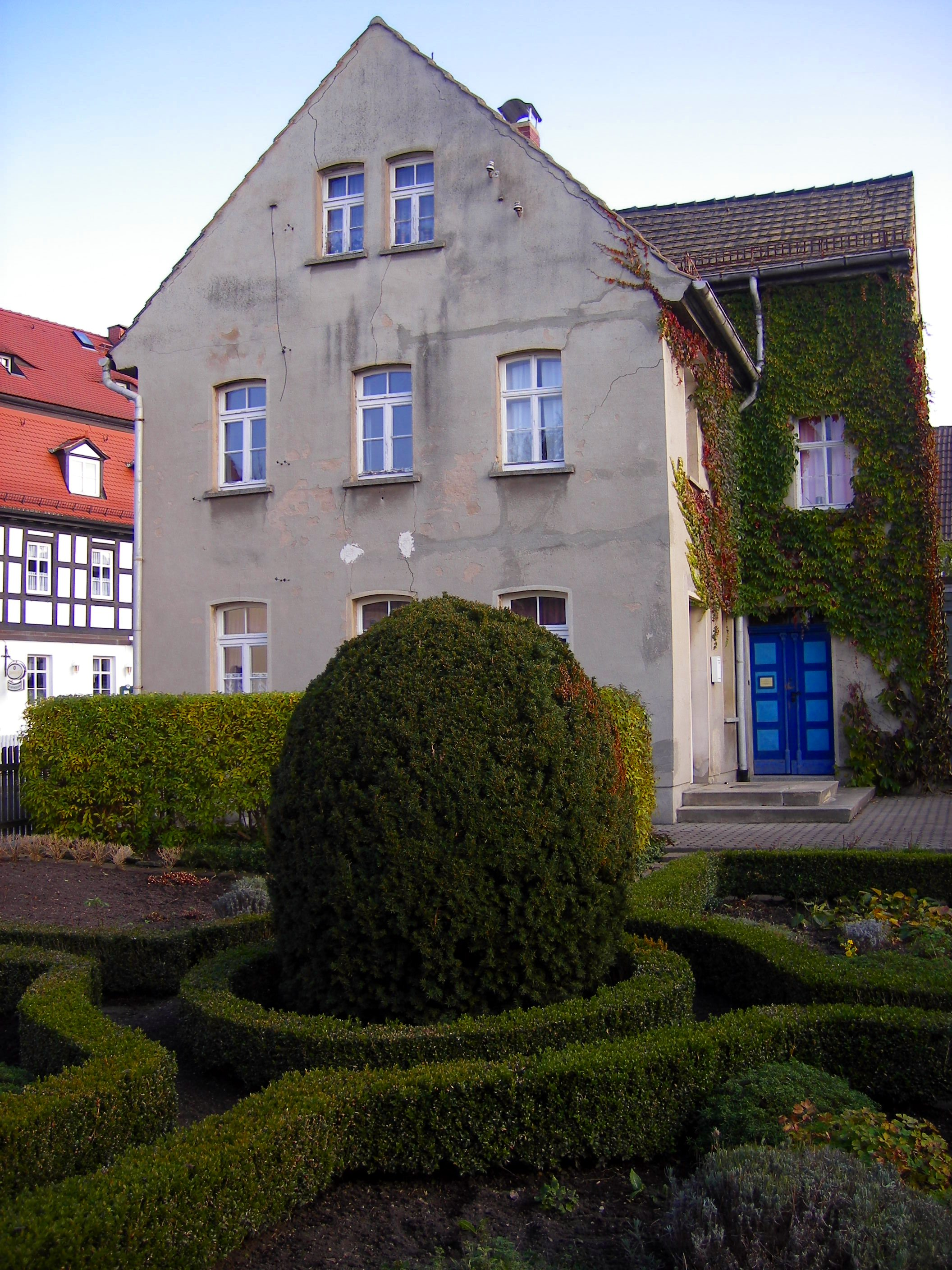 Birthplace of Alfred Ahner in Meuselwitz-Wintersdorf near Altenburg/Thuringia